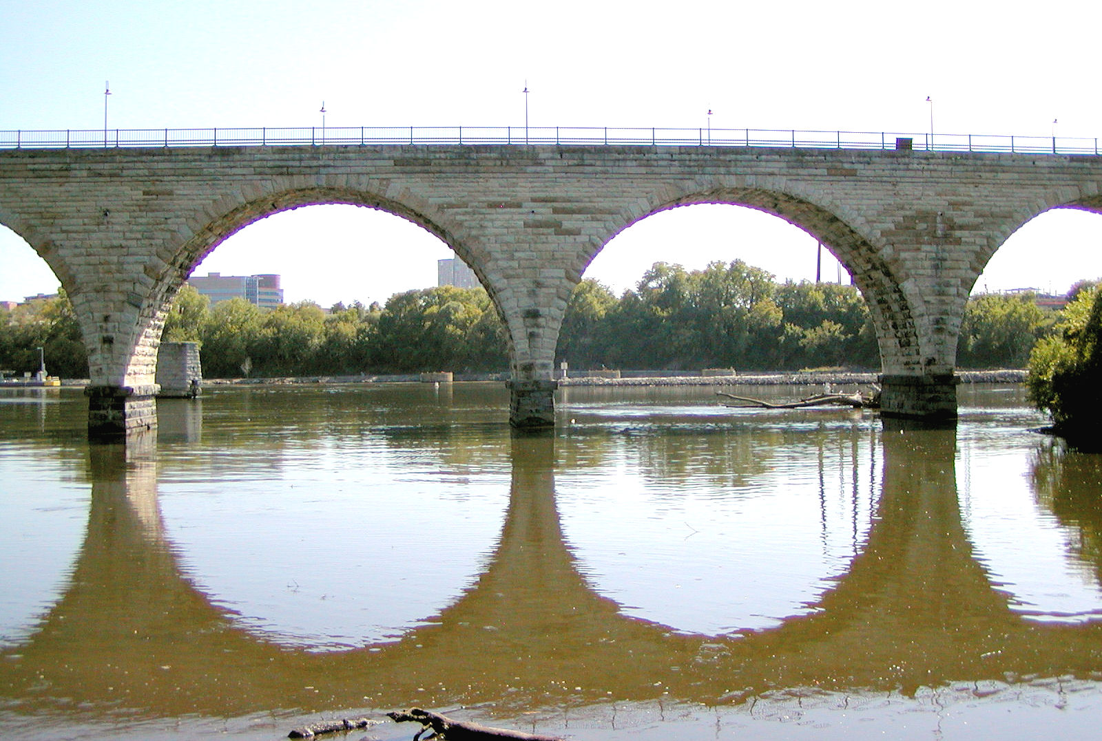 Taken by William Wesen 09/13/06 Category:Images of Minneapolis, Minnesota